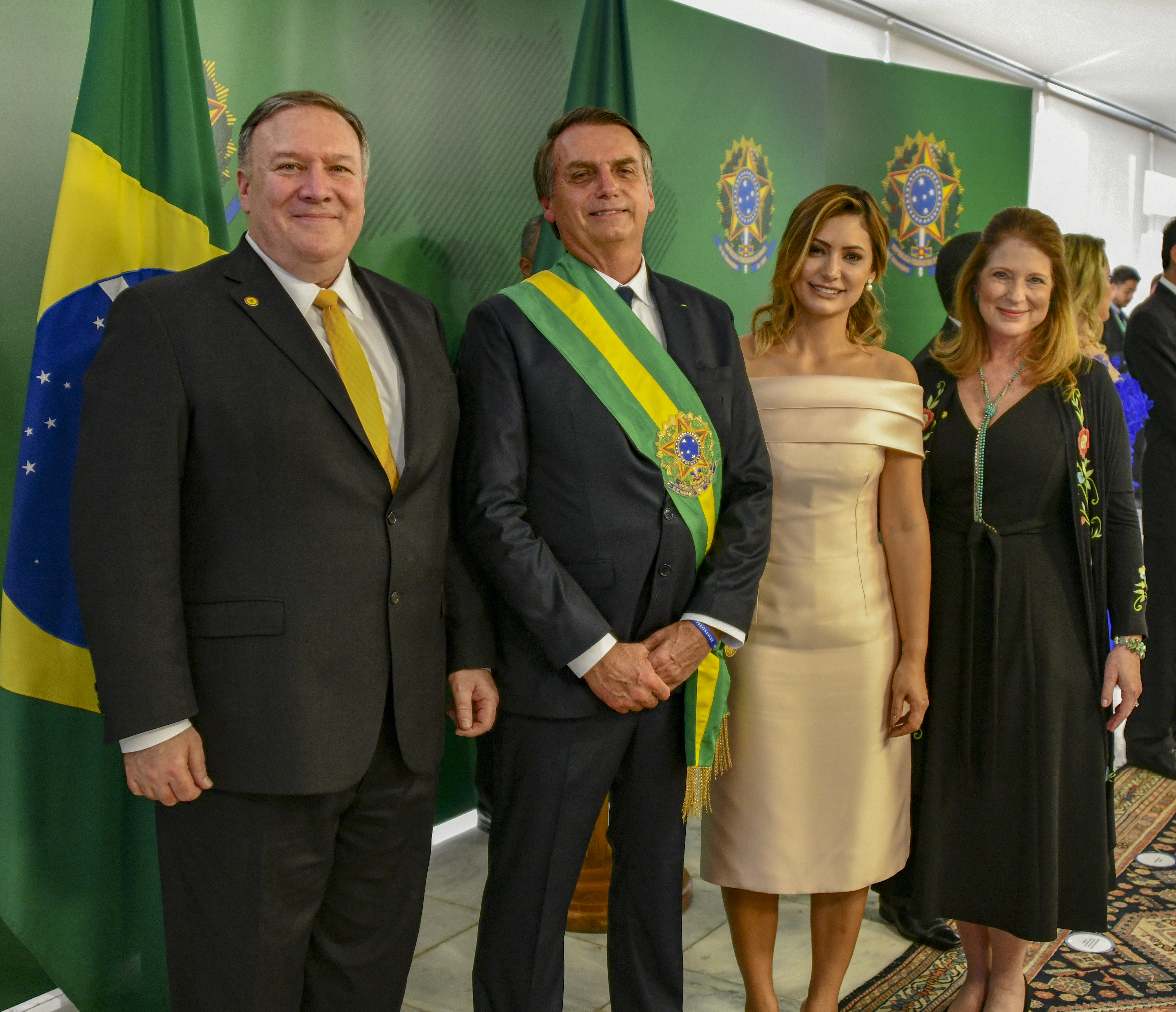 Secretary Pompeo and Mrs. Pompeo Pose for a Photograph With Brazilian President Bolsonaro and First Lady Bolsonaro in Brazil U.S. Secretary of State Michael R. Pompeo and Mrs. Susan Pompeo pose for a photograph with Brazilian President Jair Bolsonaro and Brazilian First Lady Michelle de Paula Firmo Reinaldo Bolsonaro, in Brasilia, Brazil, January 1, 2019. [State Department photo/ Public Domain]